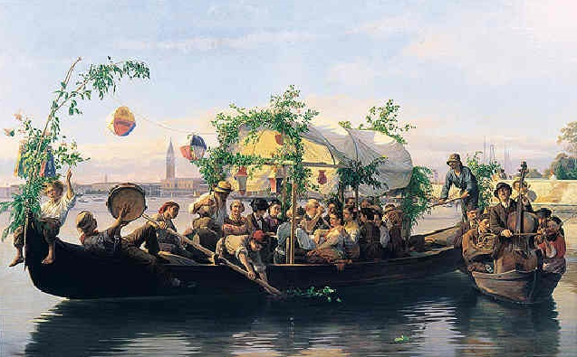 Antonio Rotta, A party in Venice, 1872, Venice